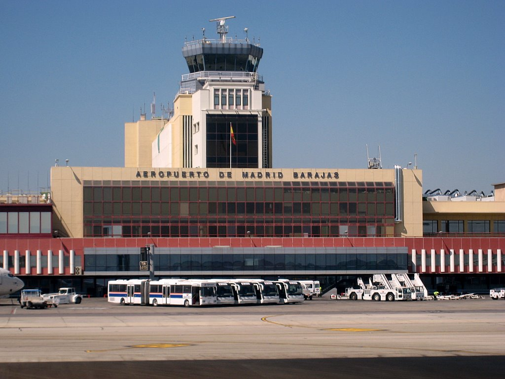 Terminal 2 of the Madrid-Barajas airport (Spain).